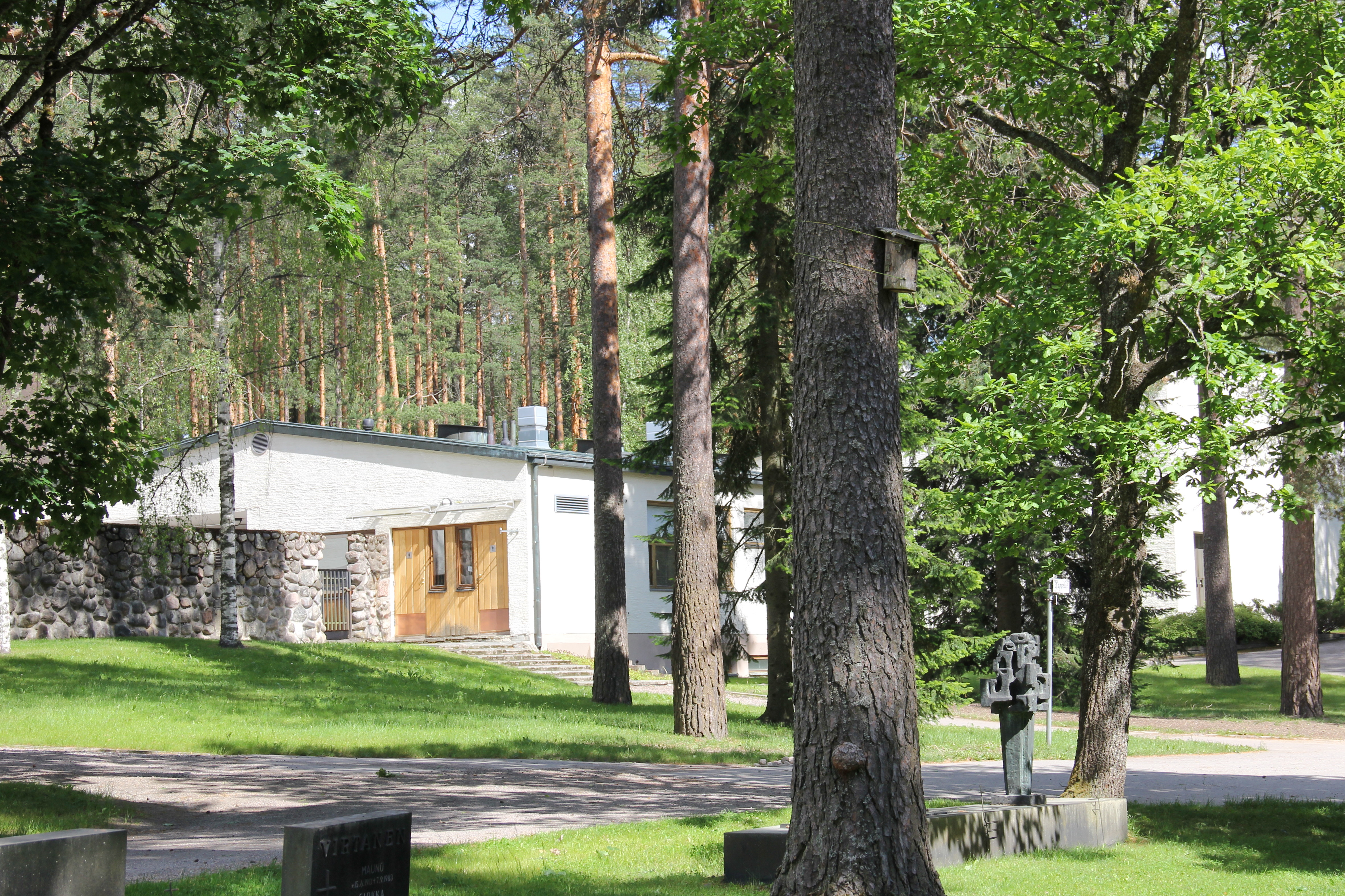 Levon hautausmaa, Lahti, Finland. - Chapel.